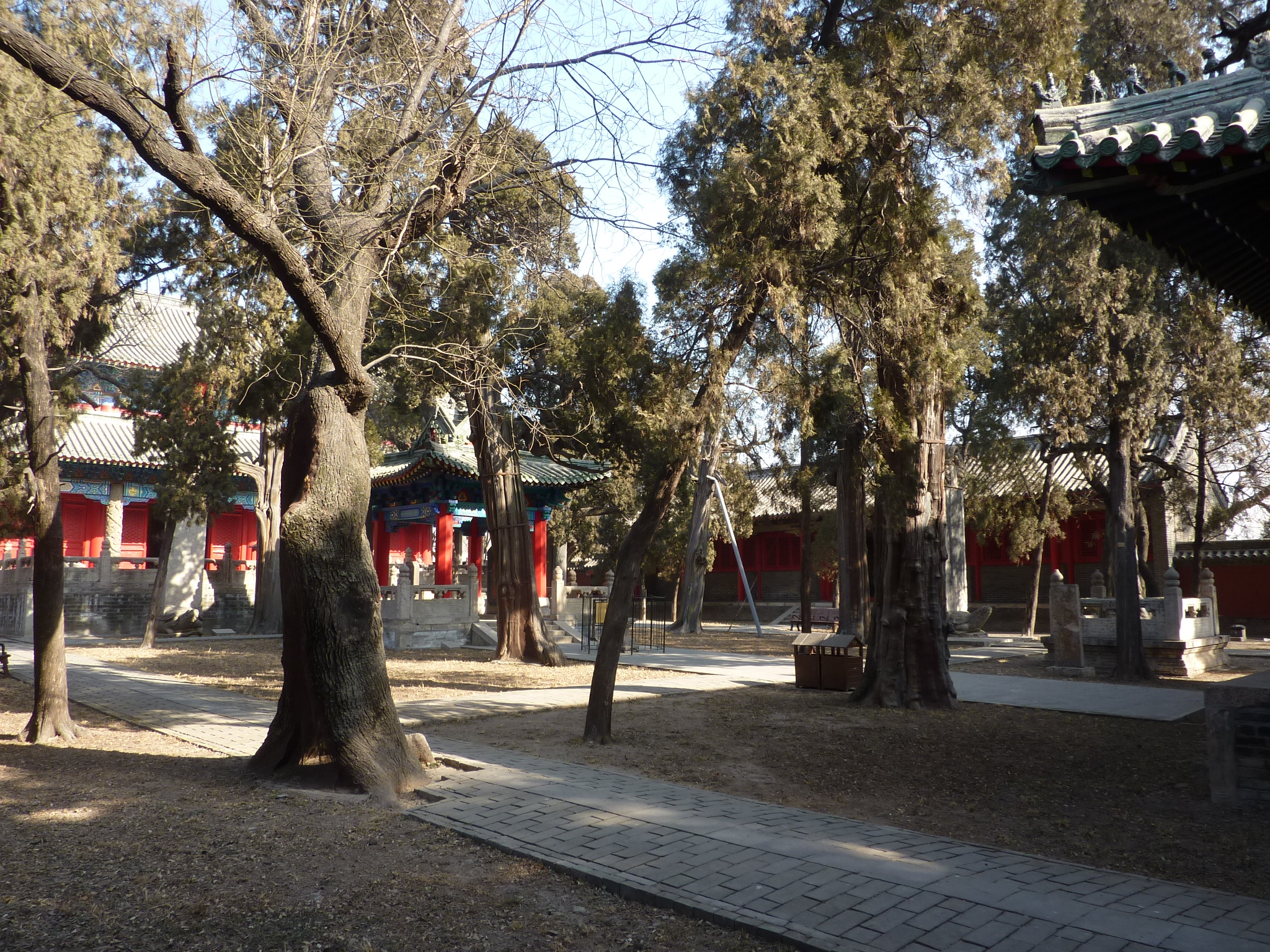 The northen courtyard of Yan Miao seen from its SW corner. The Pavilion of Joy (Le Ting) is in the center-left; the Hall of Fusheng, the main sanctuary of Yan Miao, background left. Two Yuan-era turtle-borne stelae can be seen: Zhishun Year 2 Stele granting Yan Hui the title of Fusheng, Duke of Yanguo, on the left (in front of the Hall of Fusheng), and Zhizheng Year 9 Yan Miao Renovation Stele, on the right.